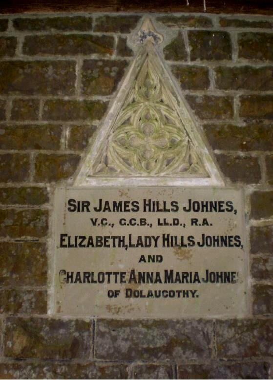 I took this photo in 2001 in Caio Wales. I release it to the public domain.